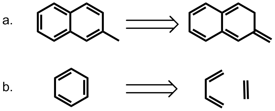 Homodesmotic dissections used by Bloom and Wheeler (Angew. Chem. 2011, 123, 7993–7995) to quantify the effects of delocalization on pi stacking.